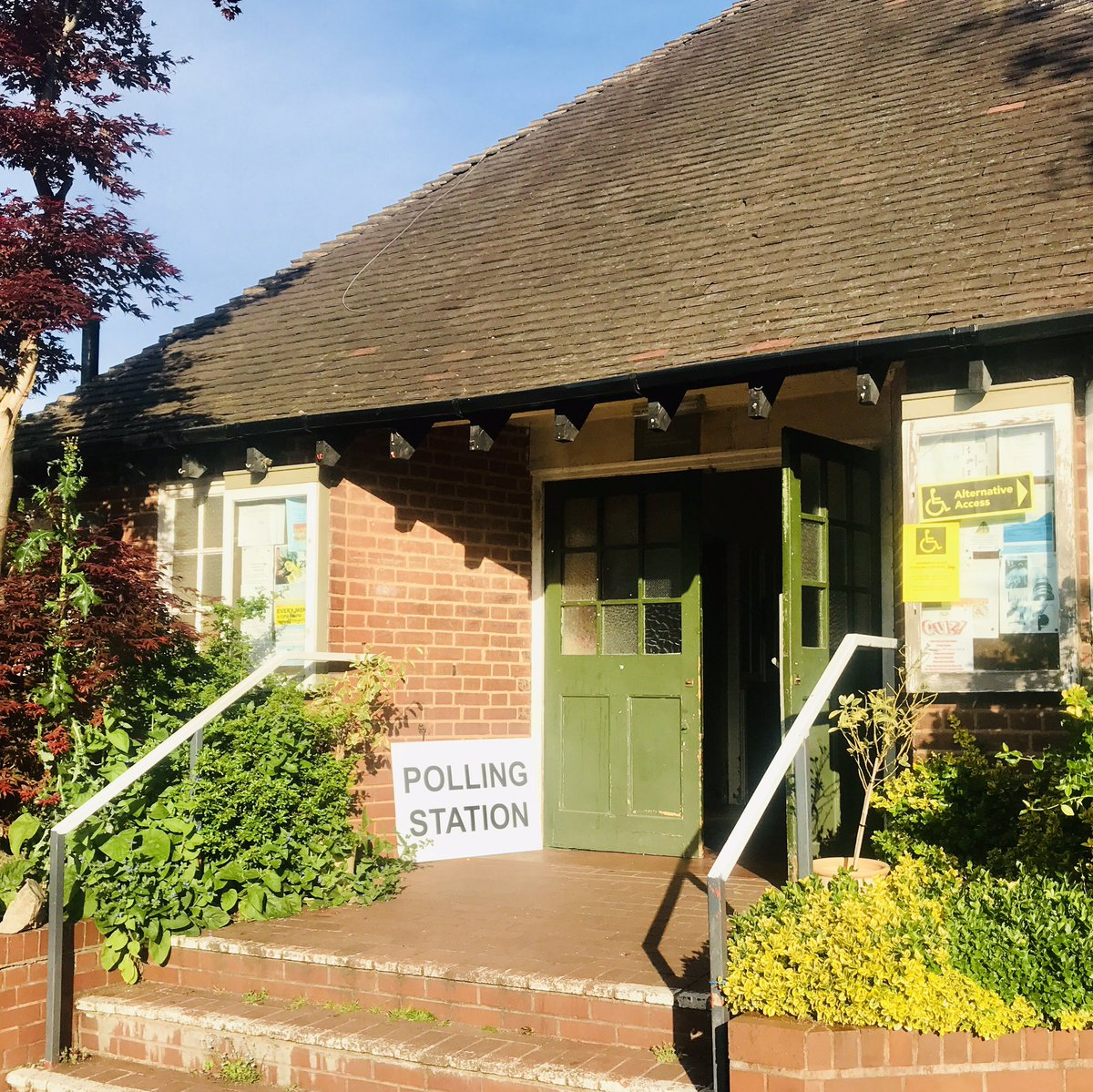 Moorpool Hall in Harborne, Birmingham. Open as a polling station for the European Union elections on 23 May 2019.